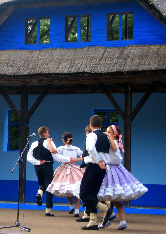 Slovaks' Traditional Music Festival, named "Tancuj, Tancuj" (Dance, Dance) held in Glozan, Serbia. Every year Glozan is host to many folklor groups from all over ex Yugoslavia, mostly Serbia, as well as from Slovakia. They are showing variety of traditional songs, dancing abilities and differences in beautiful costumes. Distinction between different geographical areas is more then visible through palete of costume colors. It's a very cute music event set up on beautiful replica of traditional Slovak house painted in blue. Very vividly colored festival!